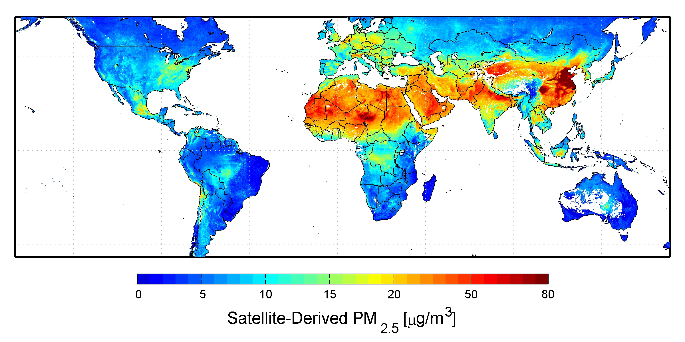 Global map of PM2.5 (= fine particulate matter, 2.5 µm or less in diameter) distribution (2001–2006).